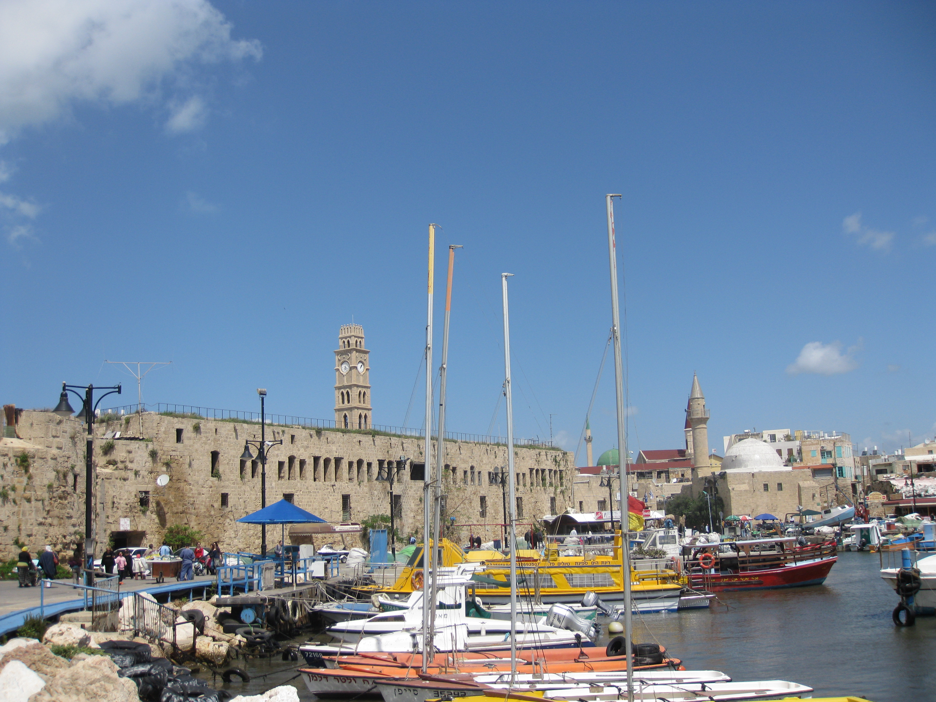 Acre's Port נמל עכו